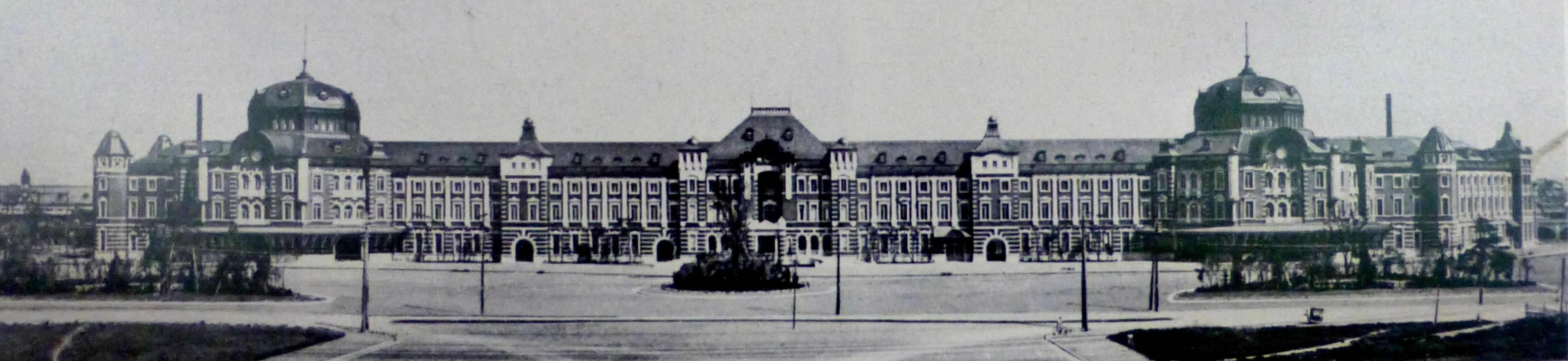 Panoramic view of Tokyo Station (original Marunouchi building), at its completion in 1914.